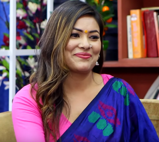 Sunita Dulal, a Nepalese folk singer during a comedy show.